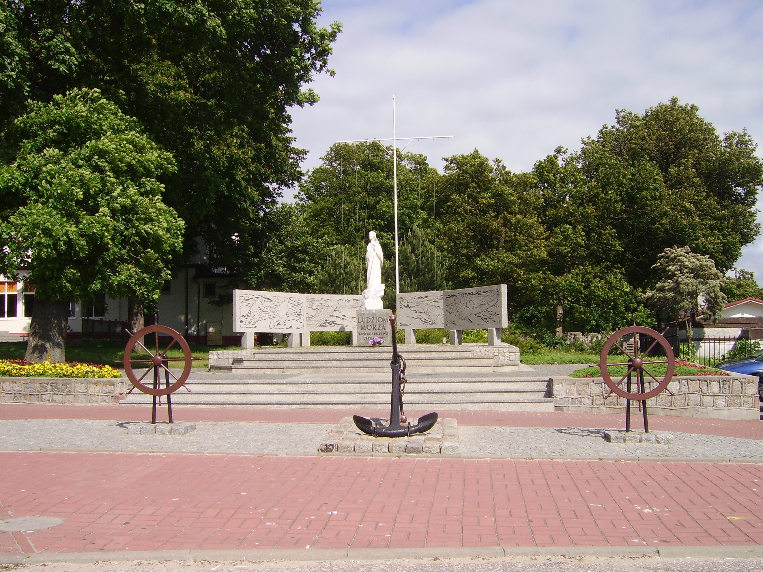 The monument "Ludziom Morza" in Ustka, Poland, 2009-06-16